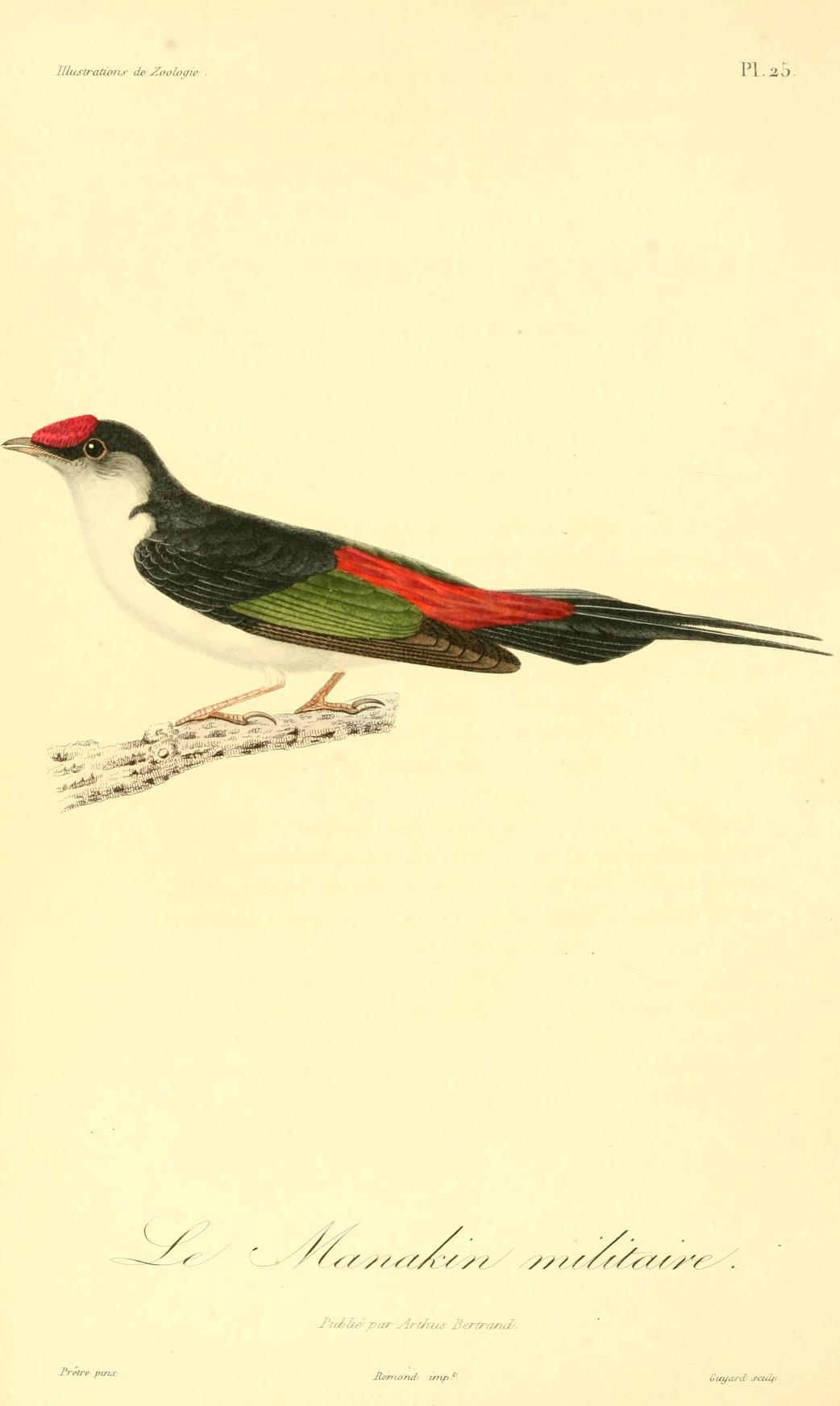 « Manakin militaire, » = Ilicura militaris (Pin-tailed Manakin)